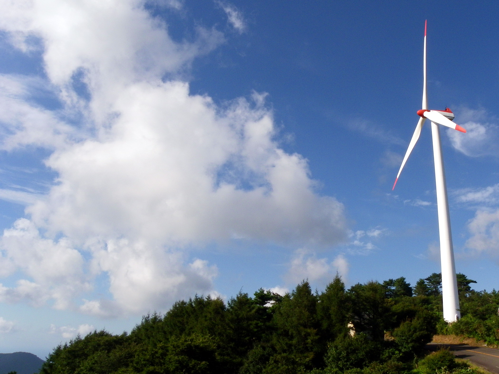 Kunimidake Wind Power Generation